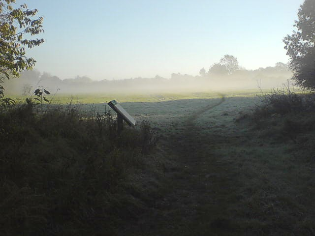 Draycote Meadows Mist and dew on the Meadows Nature Reserve. The bridlepath leads uphill to Thurlaston.